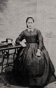 Self portrait of the Icelandic photographer Nicoline Weywadt (1841-1921)